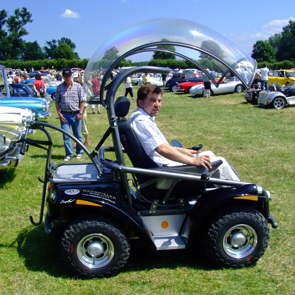 Outdoor-Hybrid-Rollstuhl mit Allradantrieb a German Outdoor-Hybrid-Wheelchair with All-Wheel-Drive from Otto Bock Baujahr: ca.2006 Quelle: selbst fotografiert, 06/2007 Fotograf: Späth Chr.